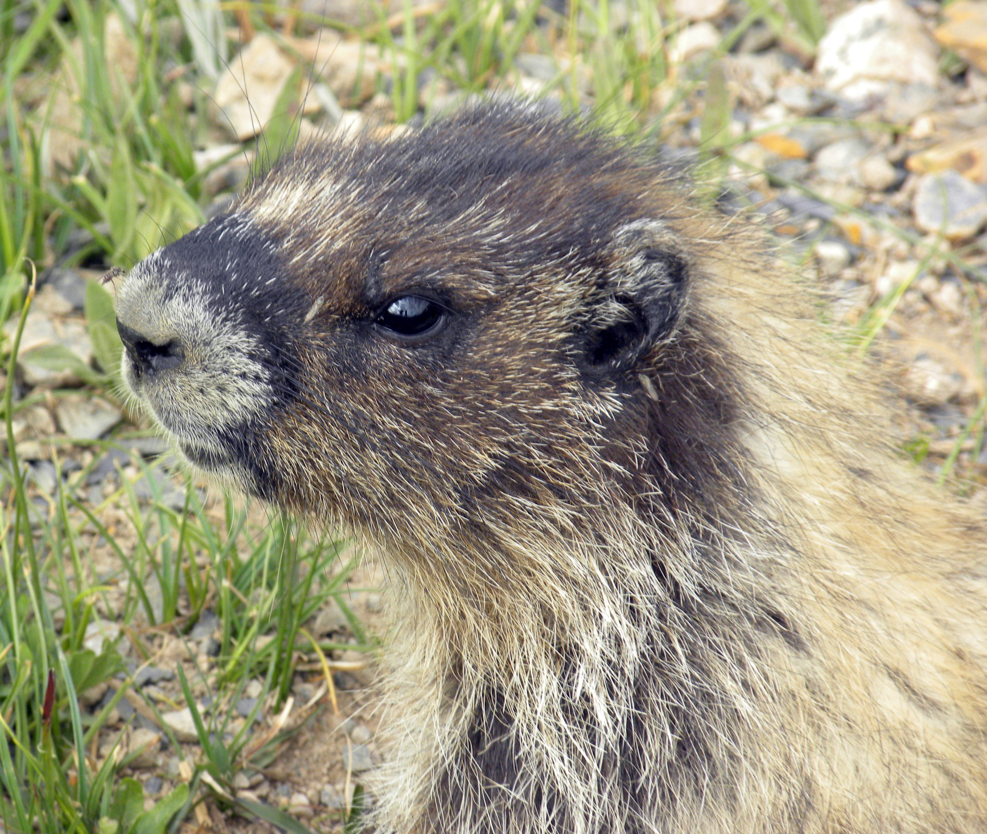 Marmota caligata near Lake Helen, Banff National Park, Canada.